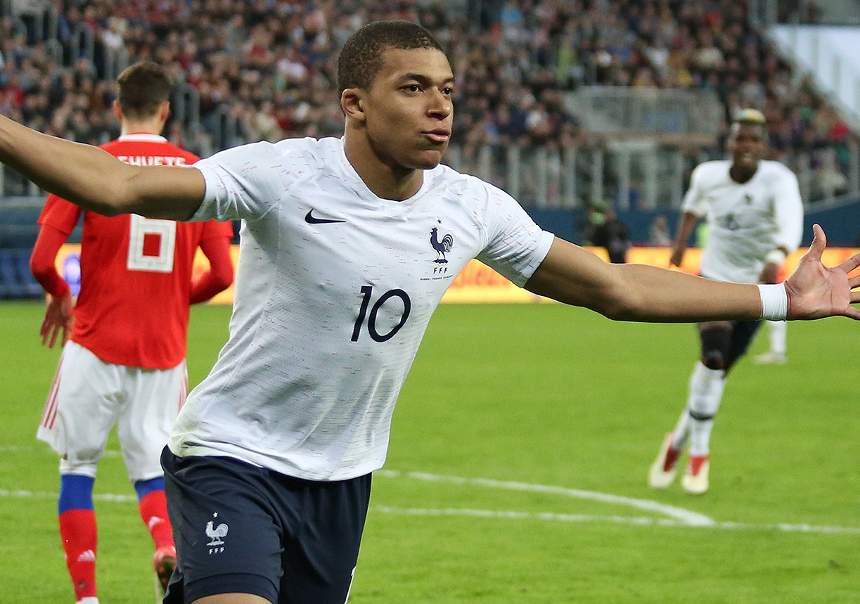 Kylian Mbappe celebrating his second goal for France on 27 March 2018.